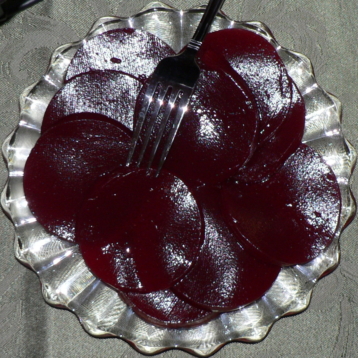 Cranberry sauce from a can, sliced.